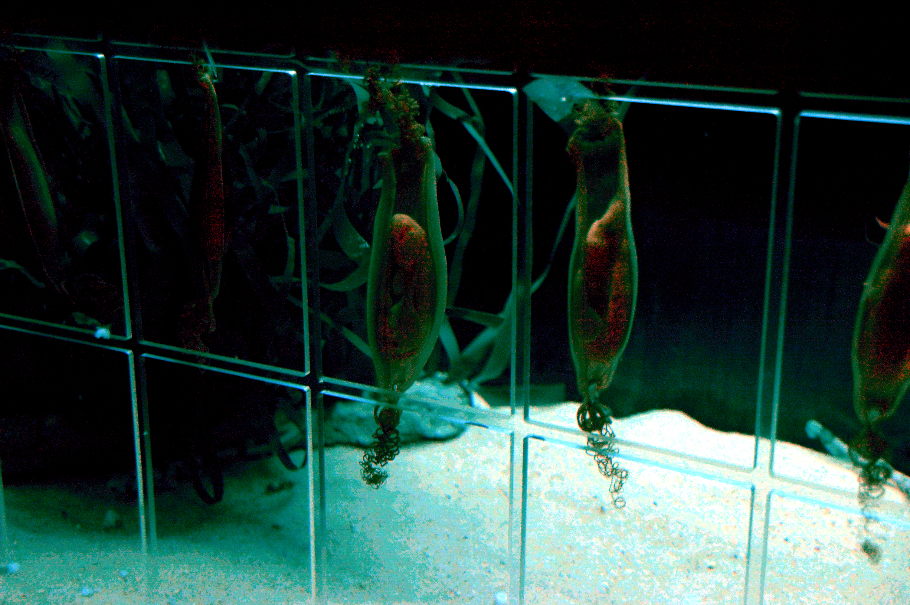 Egg cases of the nursehound (Scyliorhinus canicula) in a public aquarium.